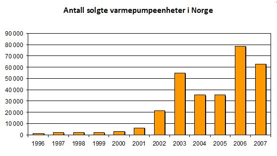 Antall varmepumpeenheter solgt